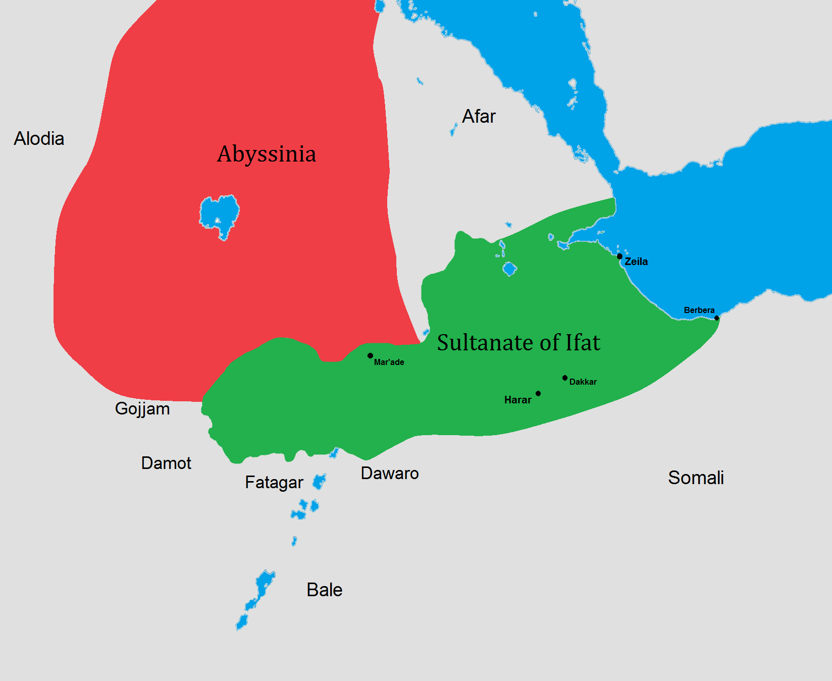 Approximate extension of the Sultanate of Ifat.